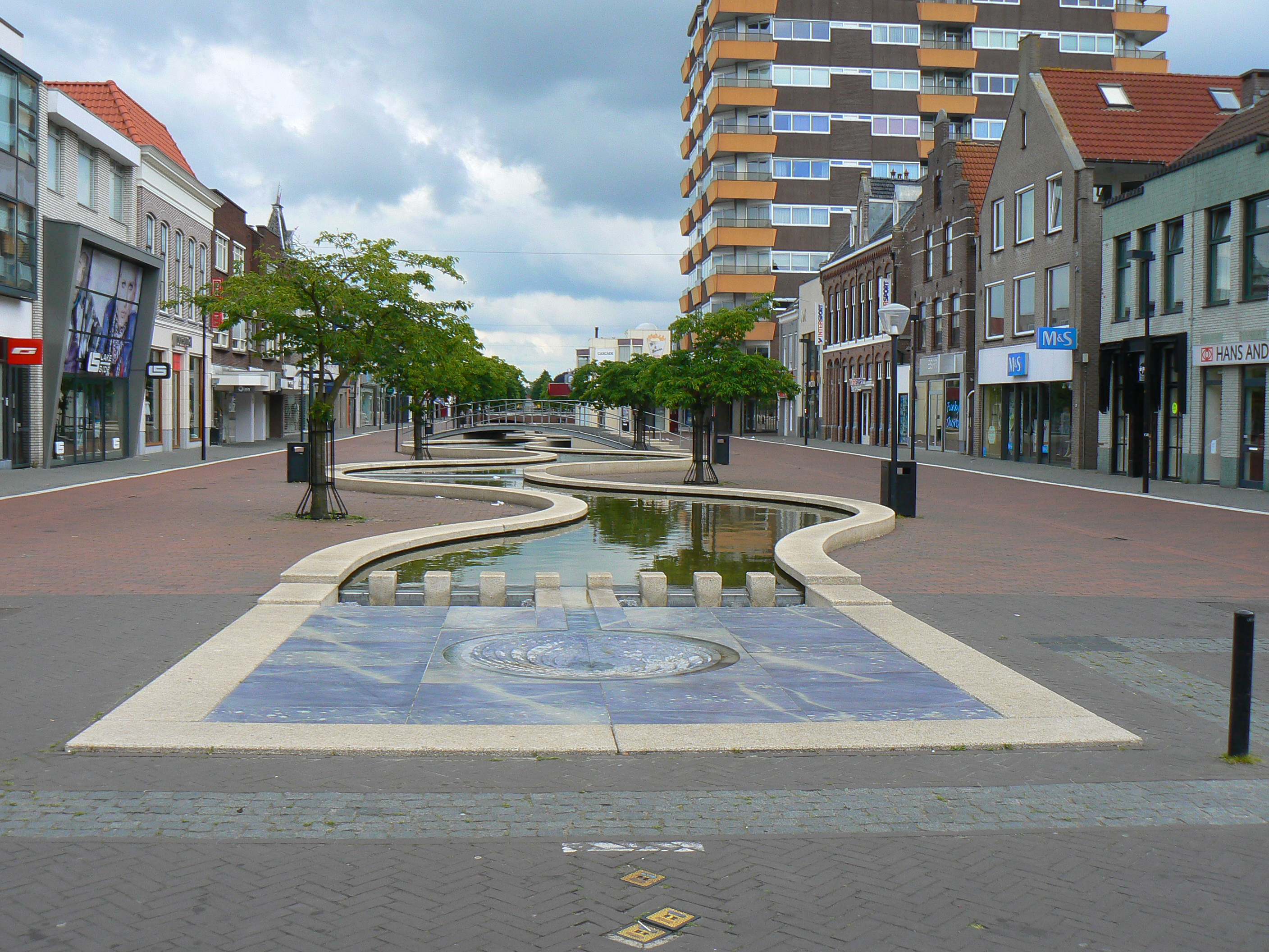 Sculpture Cascade (1995) by Karin Daan, Hoofdstraat in Hoogeveen/The Netherlands